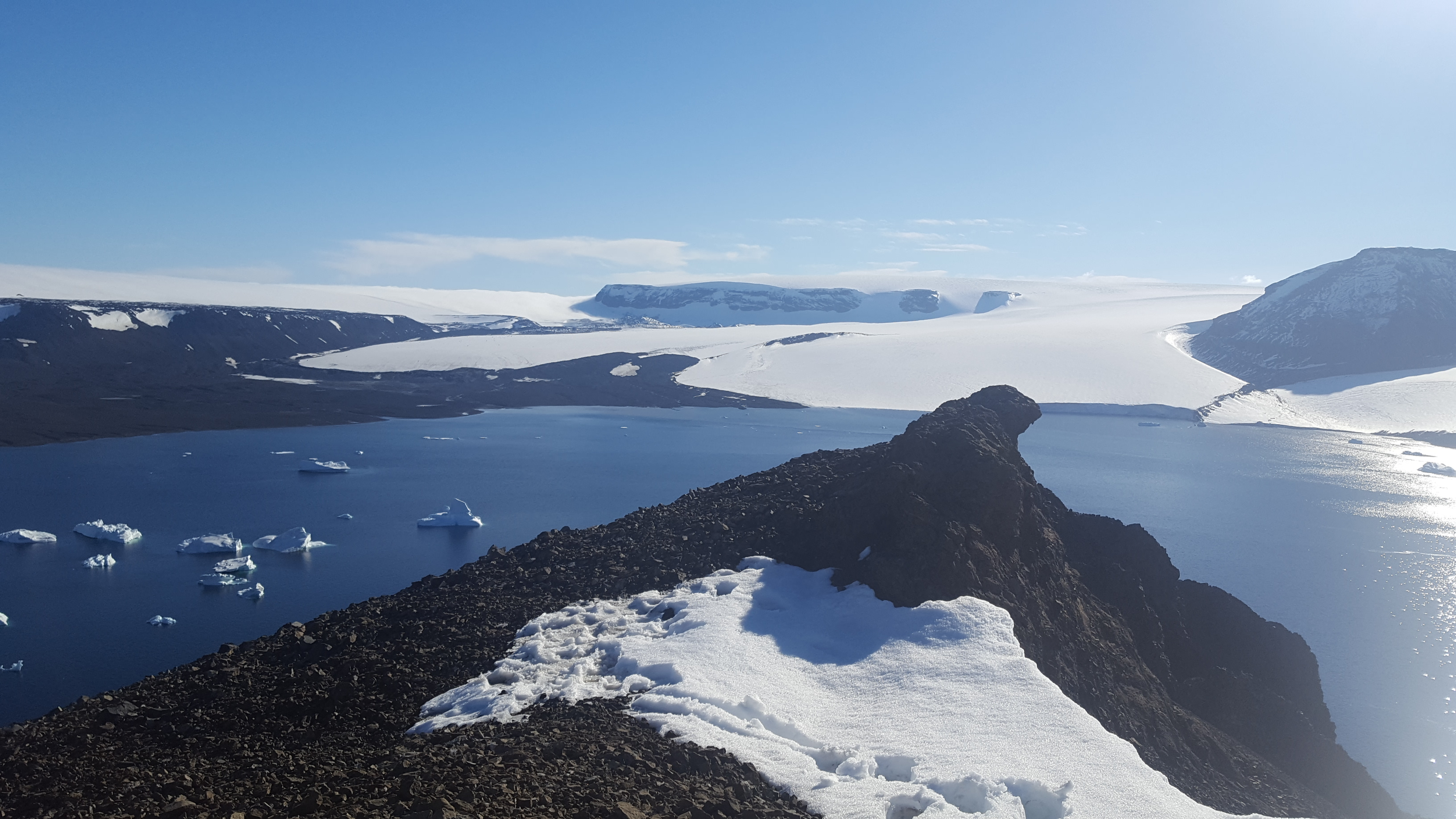 Mountain-top view of Vega Island